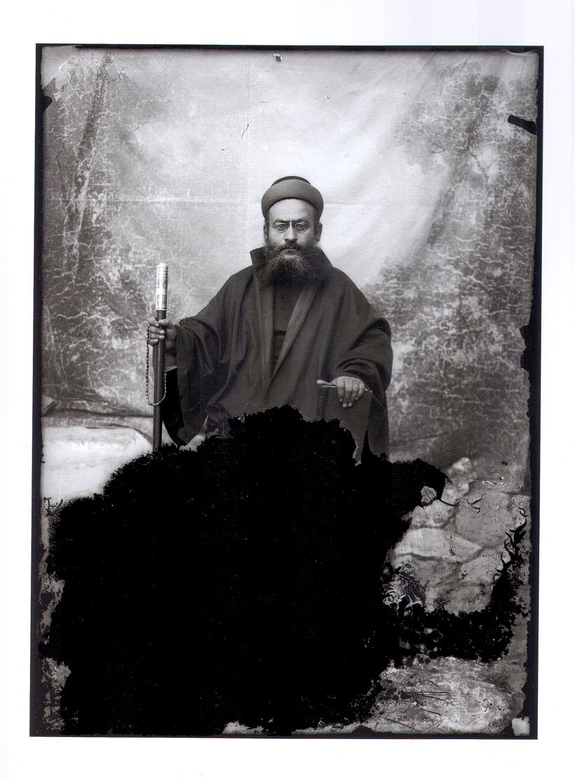 The rabbi of Kastoria, Isaac Menachem Zecharia.